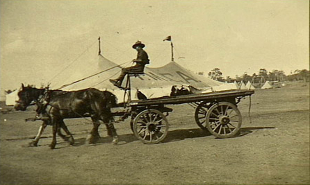 This image of Casula Camp was taken in 1914.